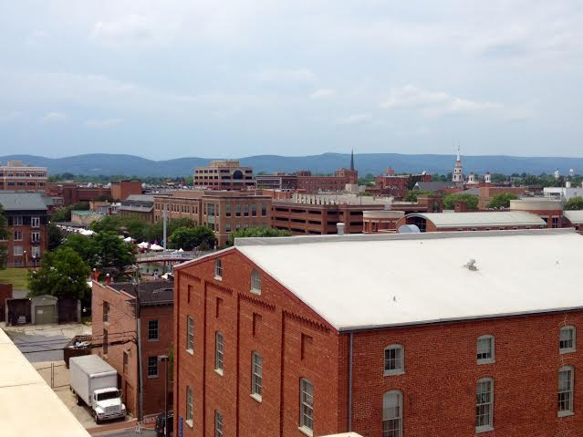 a view of downtown frederick